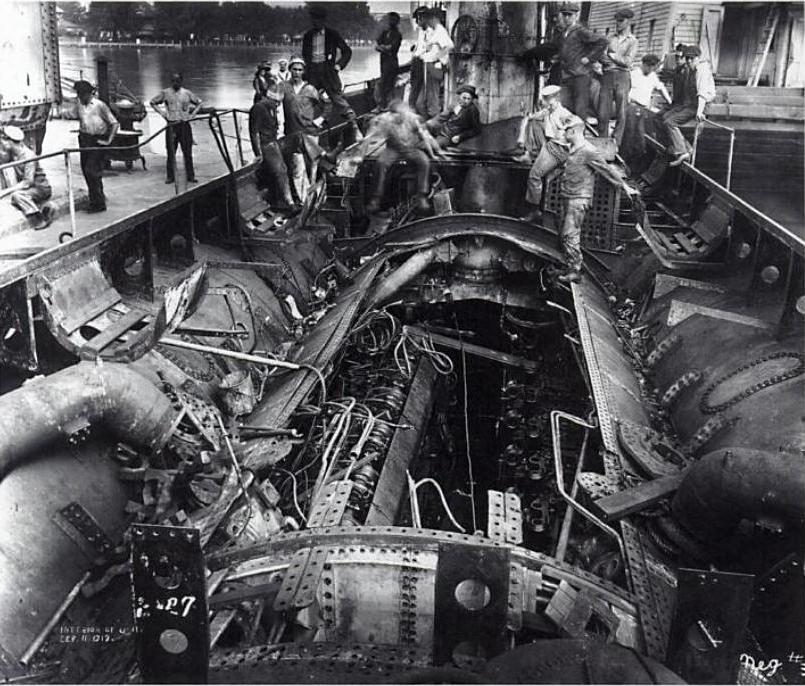 Interior view of U-117 while in dissection by American authorities